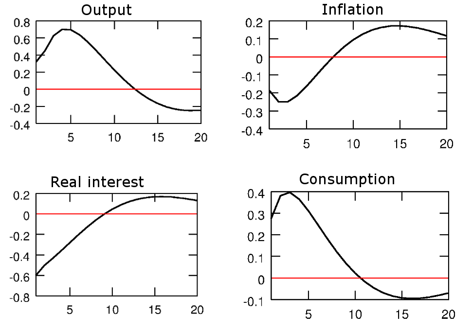 Impulse response functions for output, inflation, consumption, and real interest rates in response to a one standard deviation shock to monetary policy over 20 quarters. The model used was presented in Christiano, Eichenbaum, and Evans (2005) "Nominal Rigidities and the Dynamic Effects of a Shock to Monetary Policy." Based on Roberto Croce's implementation of the model in Dynare.